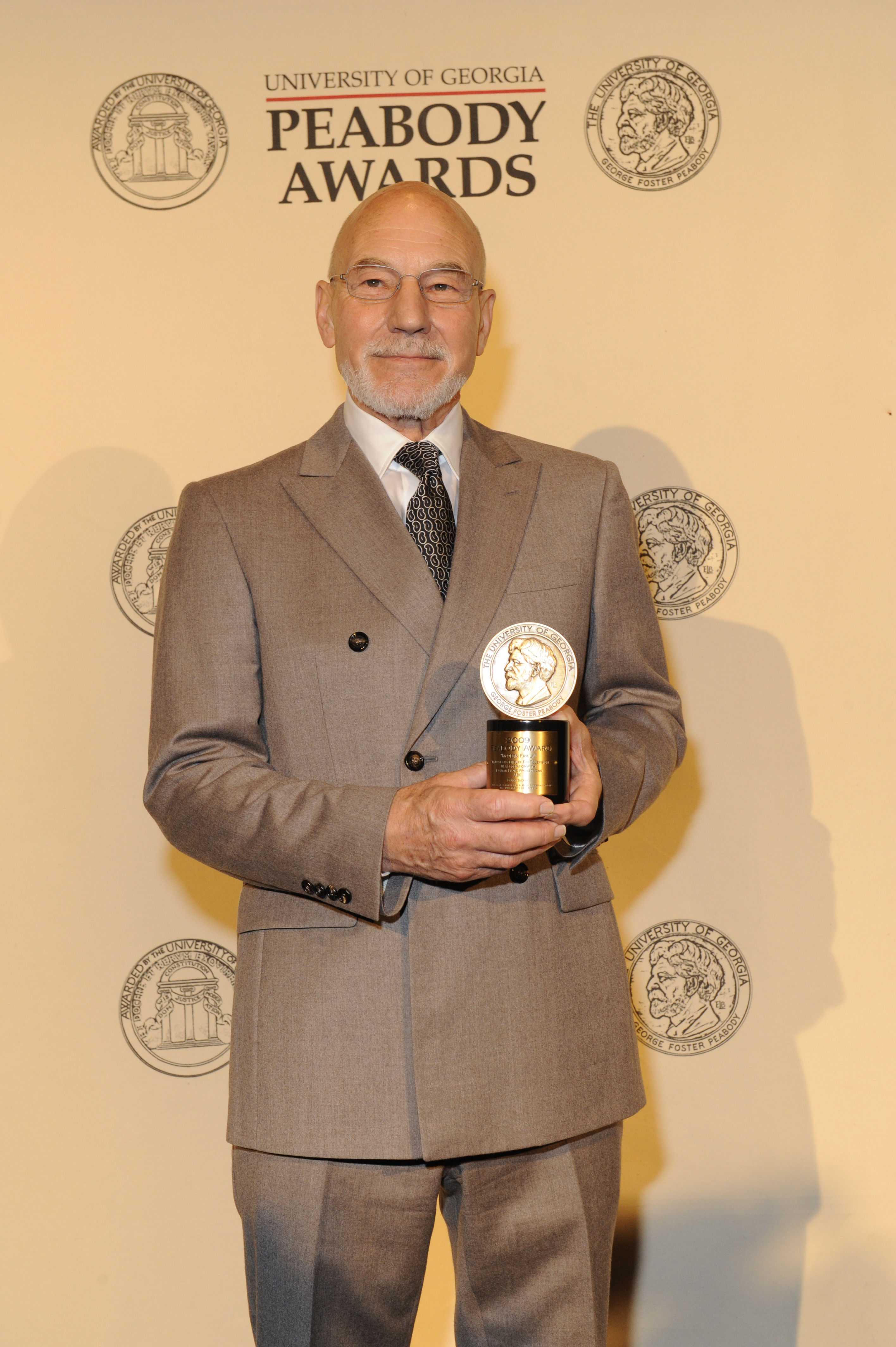 PHOTO CREDIT: ANDERS KRUSBERG / PEABODY AWARDS 71st Annual Peabody Awards Luncheon Waldorf=Astoria Hotel May 21, 2012